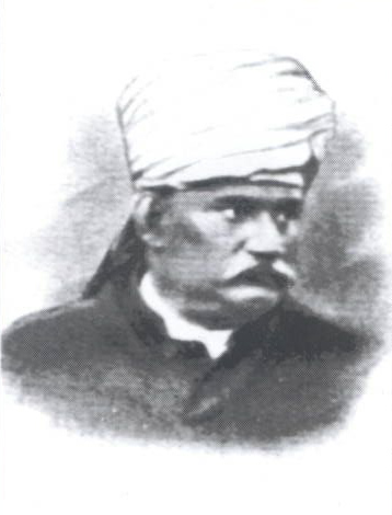 Pramathanath Mitra (1853-1910), the director of Anushilan Samiti.